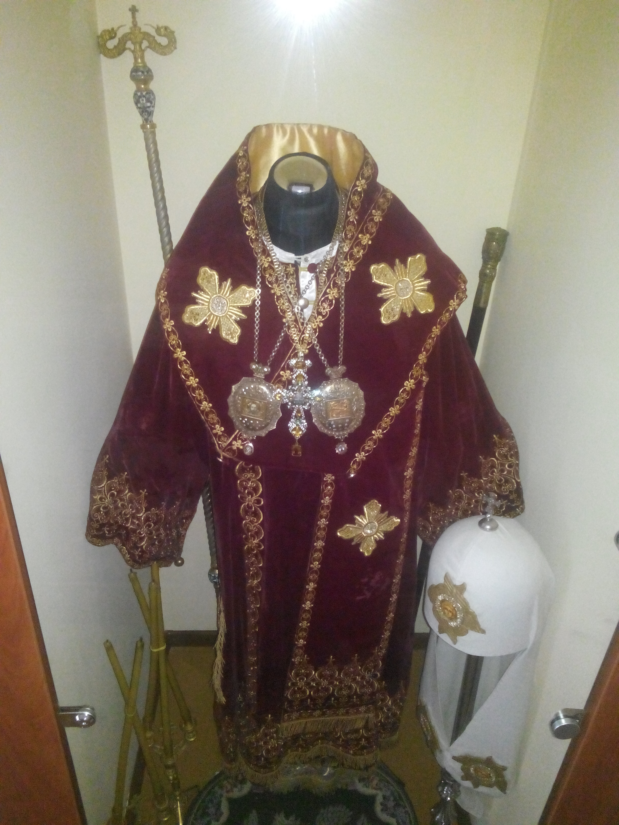 Перше облачення Святійшого Патріарха Філарета